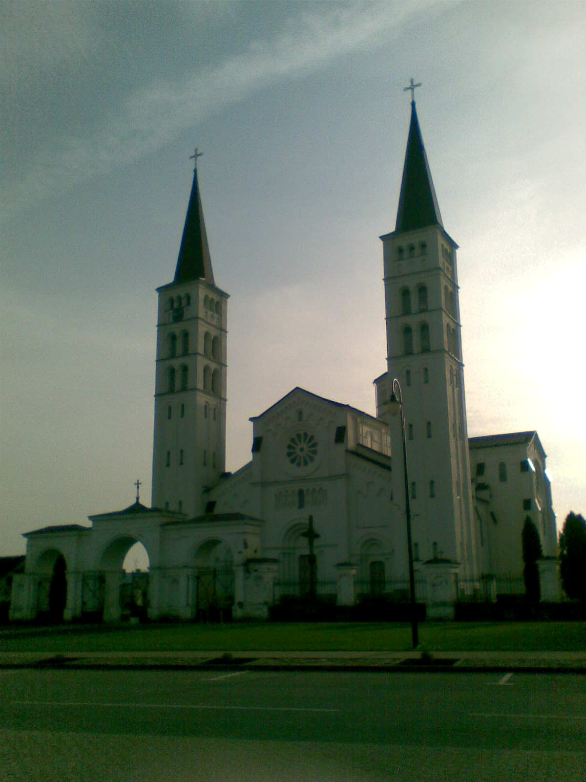 Rietavas church.